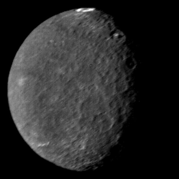 Original Caption Released with Image: The southern hemisphere of Umbriel displays heavy cratering in this Voyager 2 image, taken Jan. 24, 1986, from a distance of 557,000 kilometers (346,000 miles). This frame, taken through the clear-filter of Voyager's narrow-angle camera, is the most detailed image of Umbriel, with a resolution of about 10 km (6 mi). Umbriel is the darkest of Uranus' larger moons and the one that appears to have experienced the lowest level of geological activity. It has a diameter of about 1,200 km (750 mi) and reflects only 16 percent of the light striking its surface; in the latter respect, Umbriel is similar to lunar highland areas. Umbriel is heavily cratered but lacks the numerous bright ray craters seen on the other large Uranian satellites; this results in a relatively uniform surface albedo (reflectivity). The prominent crater on the terminator (upper right) is about 110 km (70 mi) across and has a bright central peak. The strangest feature in this image (at top) is a curious bright ring, the most reflective area seen on Umbriel. The ring is about 140 km (90 miles) in diameter and lies near the satellite's equator. The nature of the ring is not known, although it might be a frost deposit, perhaps associated with an impact crater. Spots against the black background are due to 'noise' in the data. The Voyager project is managed for NASA by the Jet Propulsion Laboratory. The original NASA image has been modified by cropping, increasing the linear pixel density by a factor of 2.47, and converting from .TIF to .JPG format.